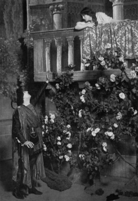 E.H. Sothern (1859-1933)with Julia Marlowe in Romeo & Juliet